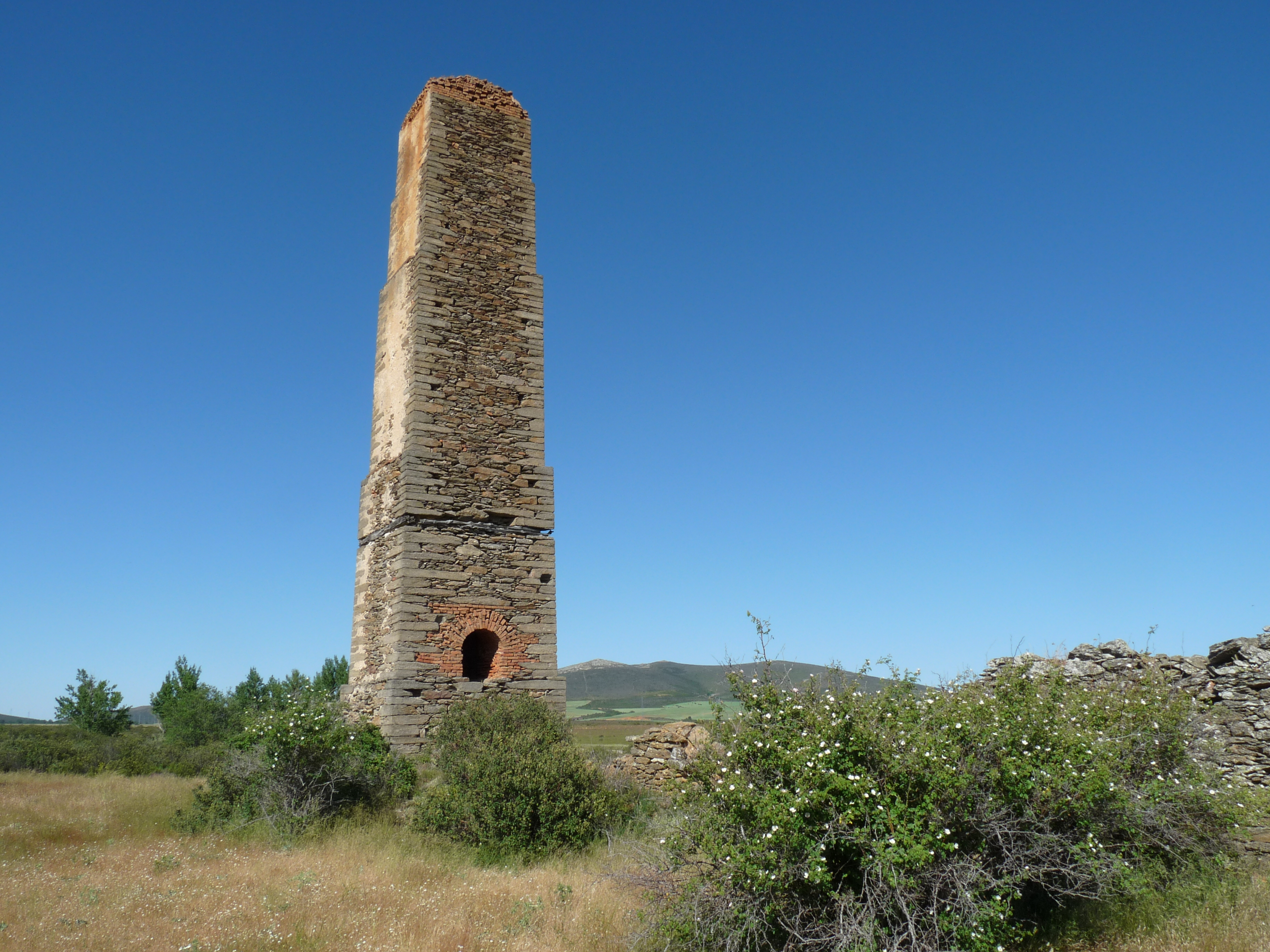 Respiradero de mina en Hiendelaencina, Guadalajara, Castile-La Mancha, Spain.